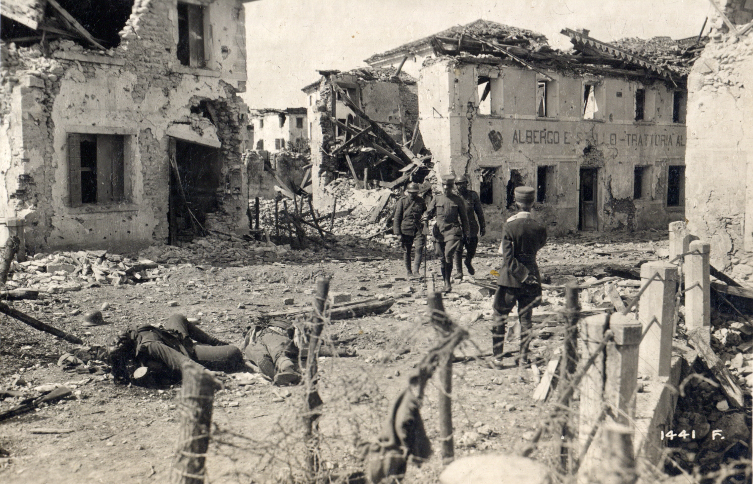 World War 1 - Italian Army: Nervesa after Italian forces retook it